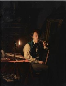 The artist in his Studio (selfportrait)